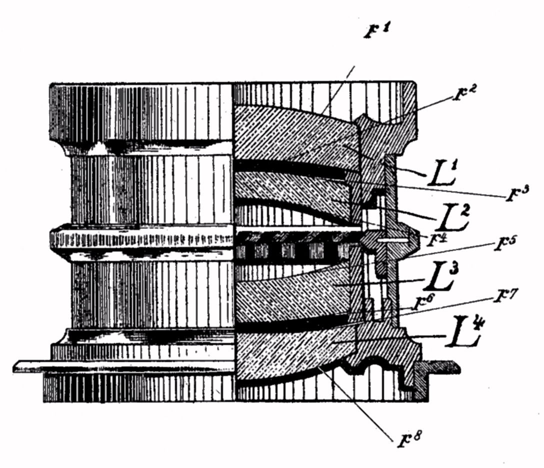 This is an original image from Deutsches Reichspatent 125560 issued 1900-06-06 to "Hugo Meyer in Goerlitz" for a "Photographisches Doppelobjectiv". Its autor, Hugo Meyer, died 1905-02-01.